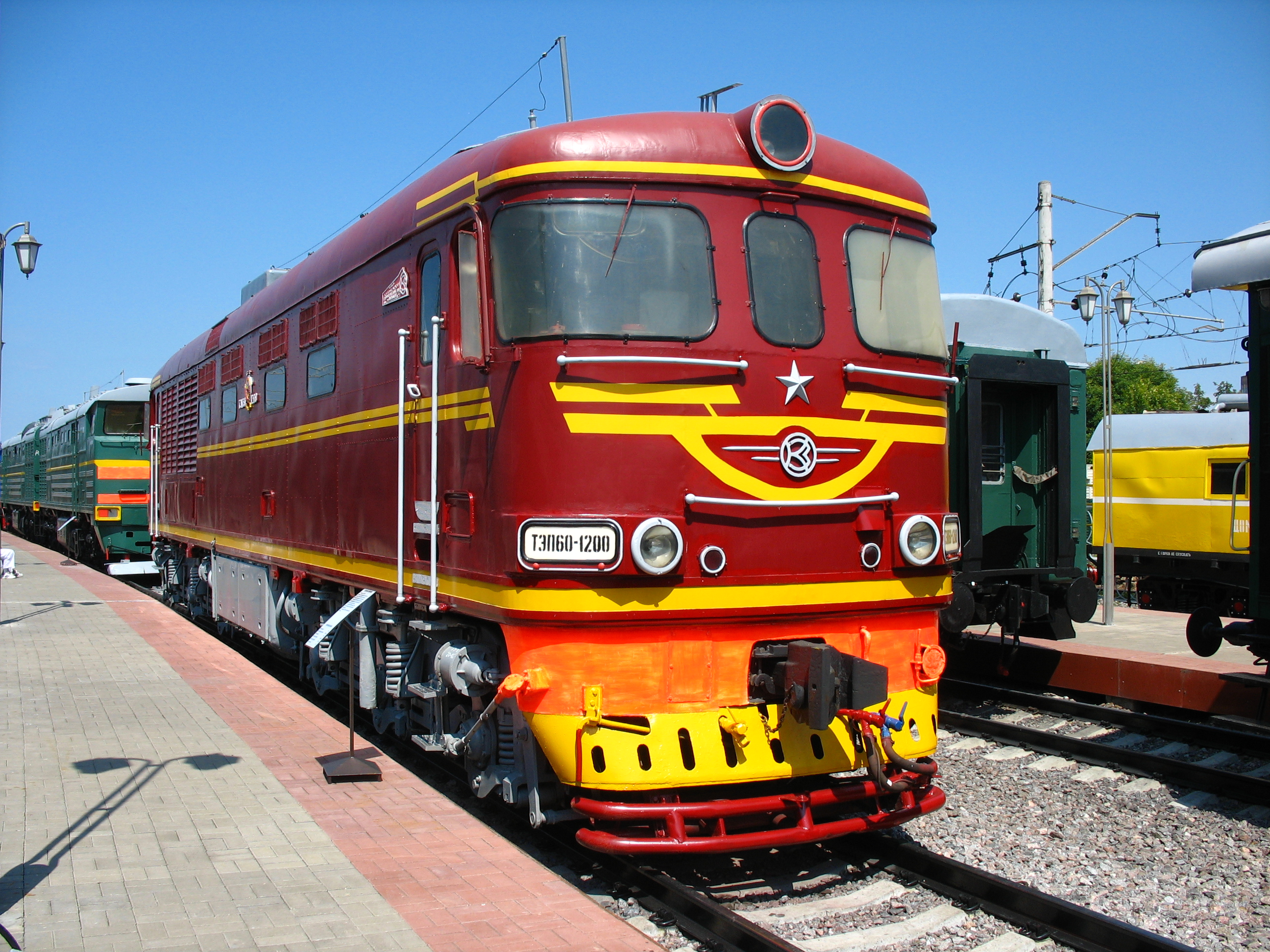 The TEP 60 (ТЭП60) is a six axle diesel locomotive with electric transmission built by Kolomna Locomotive Works (Kolomensky Zavod).